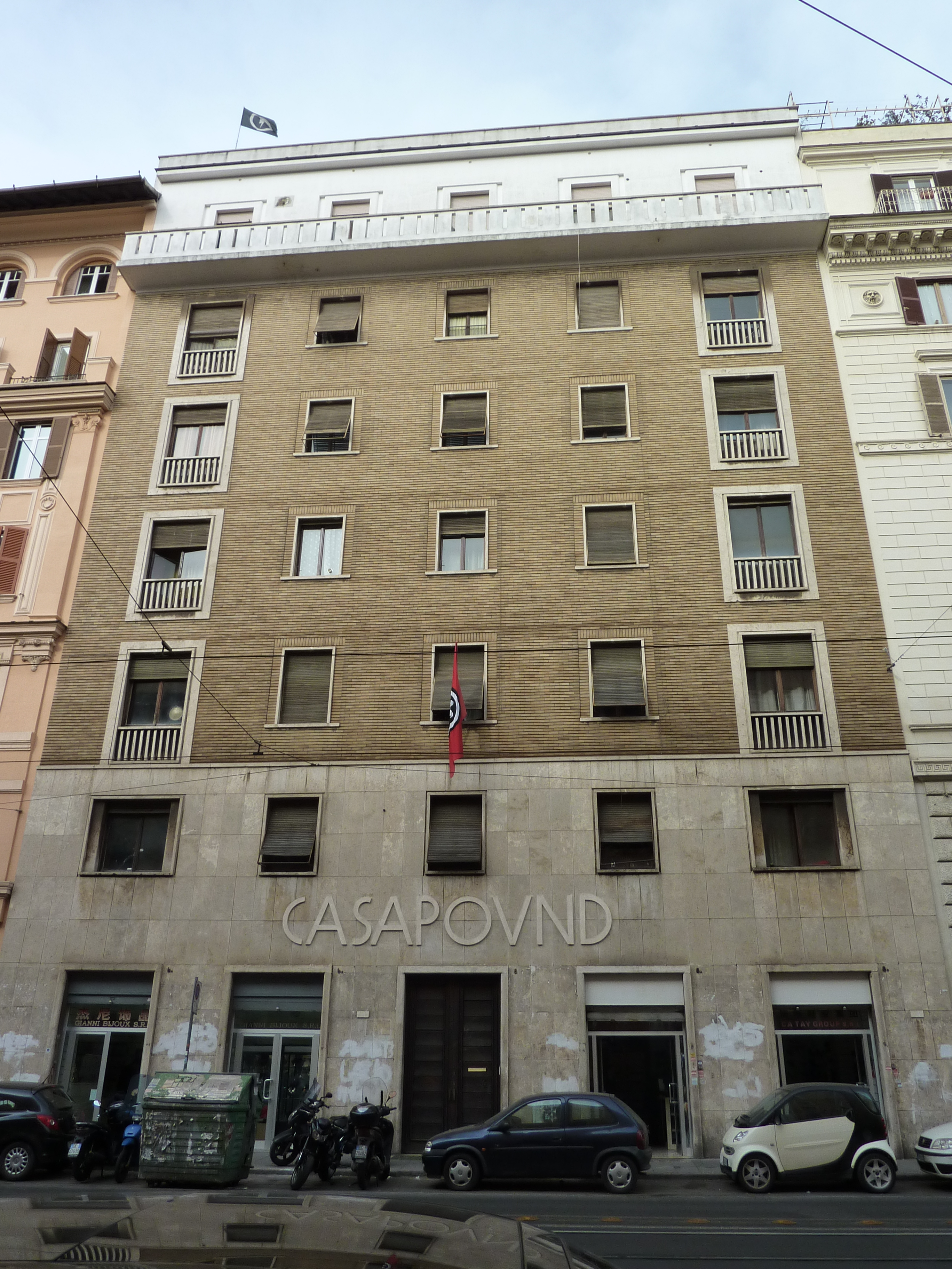 Photo of CasaPound in Rome, via Napoleone III, n° 8. CasaPound is a former governative building occupied by the homonymous social association of fascist ispiration and trasformed in a occupation with abitative finalities (O.S.A. is the italian acronym).